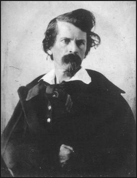 photo of Earl Van Dorn (1820-1863)